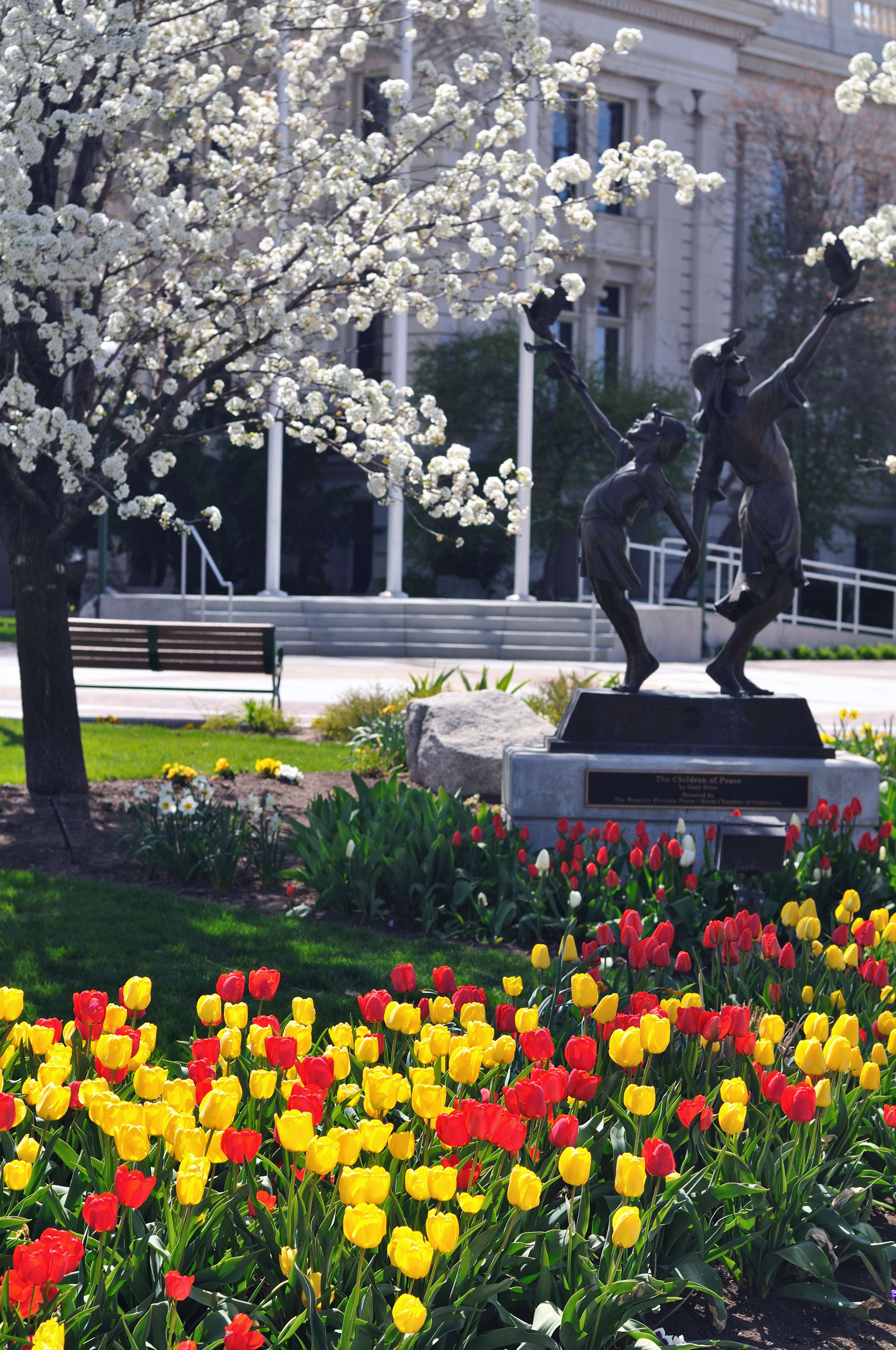 Provo courthouse garden, Spring 2008